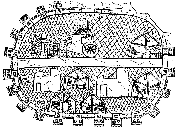 An illustration from the Encyclopaedia Biblica, a 1903 publication which is now in the public domain. Fig. 1 for article "Tent". Image of Assyrian camp at siege of Lachish, including Sennacherib's royal pavillion. Image copied from a depiction on an Assyrian monument now housed the British Museum.